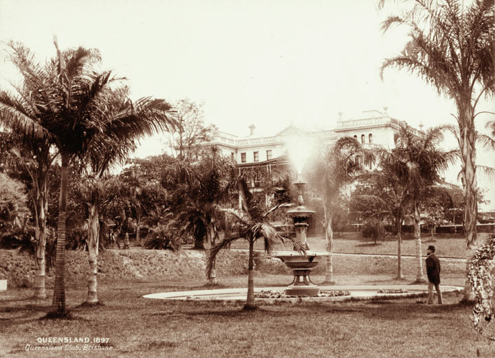 Queensland Club from Botanic Gardens, Brisbane.